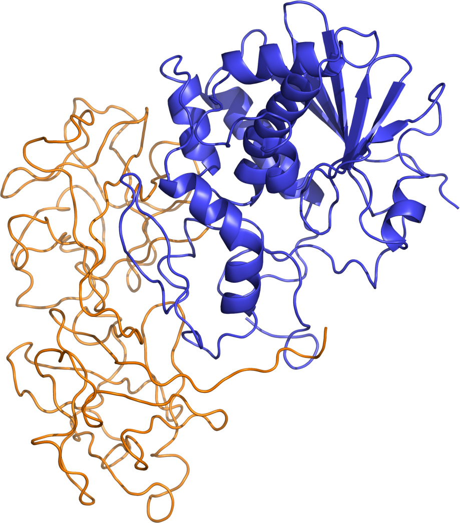 The ricin (2aai) structure